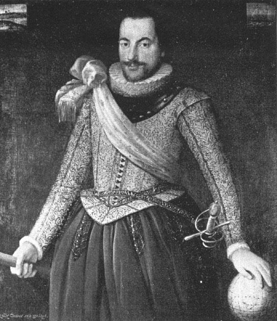 Admiral Sir Thomas Button, after an original oil in possession of G. M. Traheren, Glamorganshire, Wales.